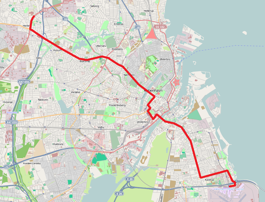 Map of the Copenhagen bus line 5C between Herlev Hospital and Københavns Lufthavn (Copenhagen Airport) as of 13 October 2019. This map may be incomplete, and may contain errors. Don't rely solely on it for navigation.